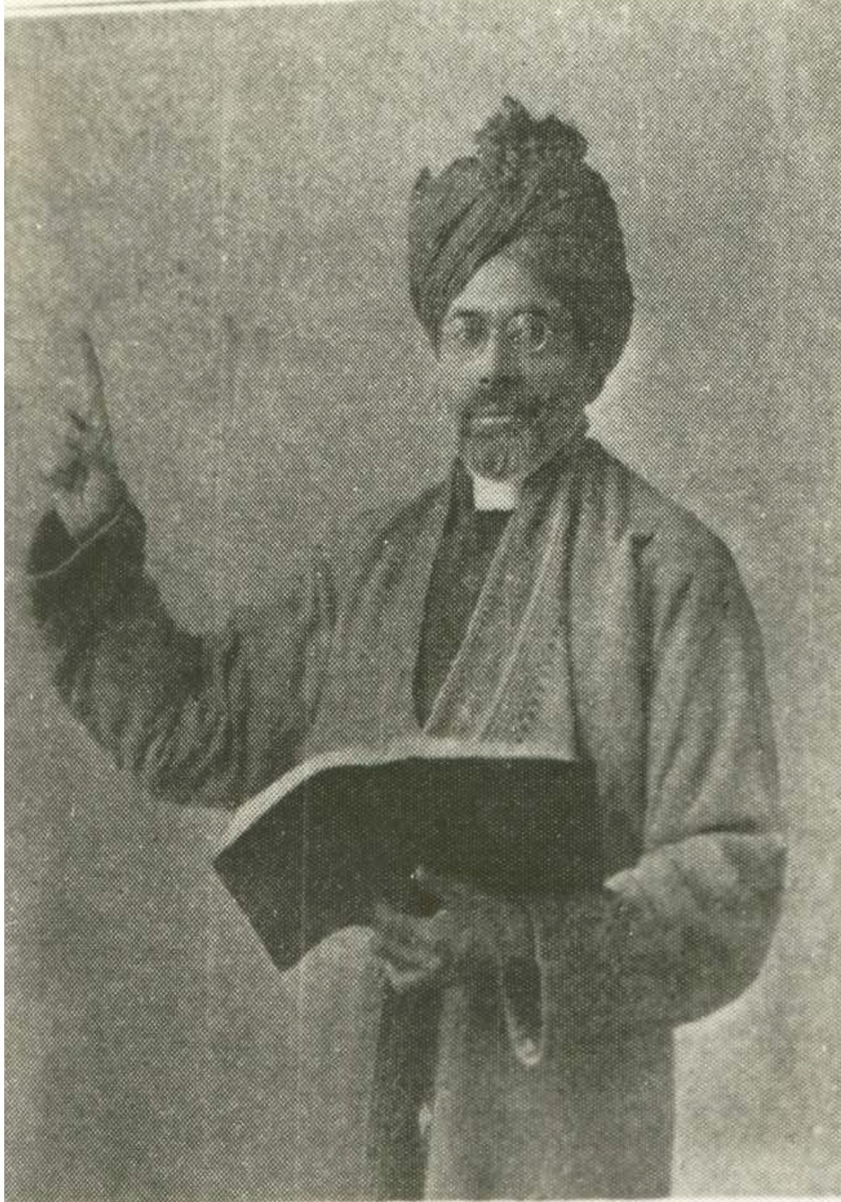 Abdur Rahim Nayyar (1883-1948) companion of Mirza Ghulam Ahmad and first Ahmadi missionary in West Africa